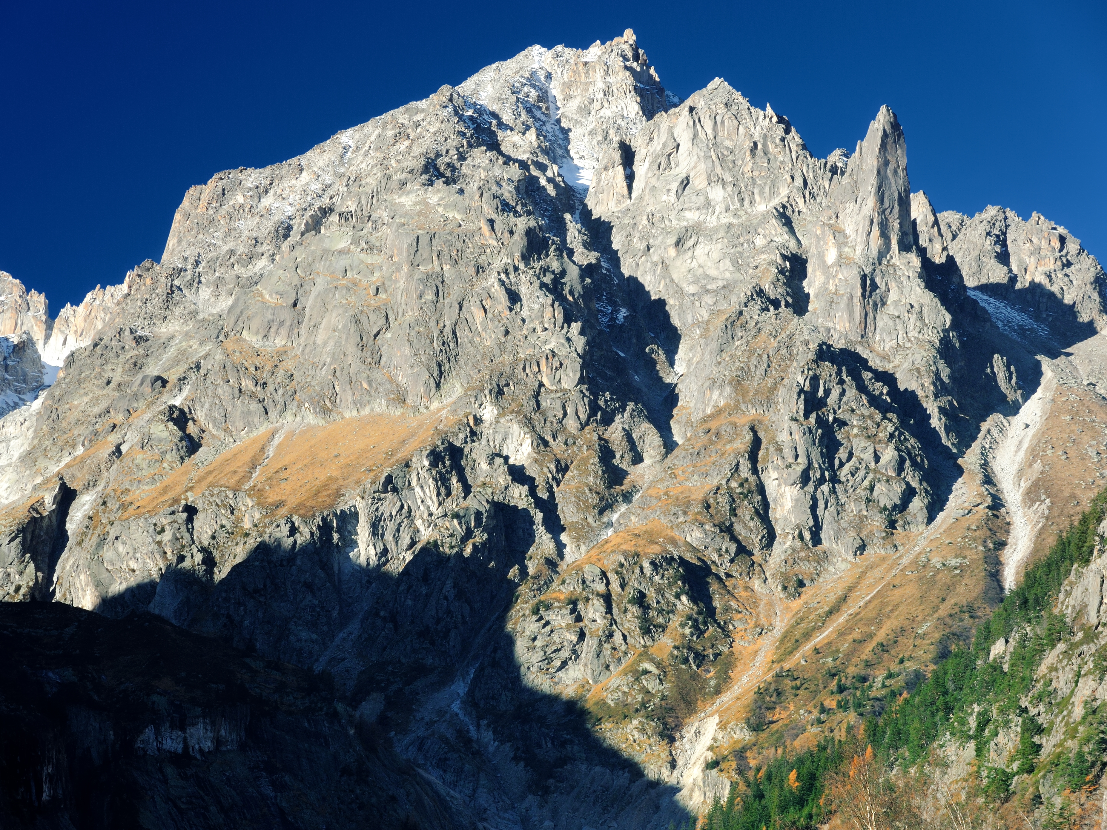 The Portalet from Praz de Fort (Valais)